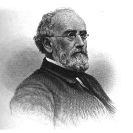 Image of Transcendentalist, social reformer, and journalist George Ripley, from frontispiece to George Ripley, biography by Octavius Brooks Frothingham. Houghton Mifflin, 1886. Found using Google book search.